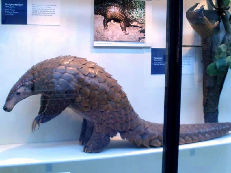 Taxidermied Giant Pangolin (Smutsia gigantea - syn: Manis gigantea) and Tree Pangolin (Phataginus tricuspis - syn: Manis tricuspis) at the Natural History Museum in London, England.